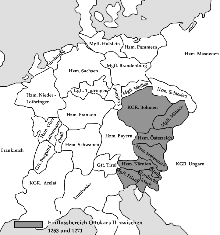 Area of Ottokar II of Bohemia. The german abbreviations in the map stand for: Gft. = Grafschaft (eng.:County) Lgft. = Landgrafschaft (eng.:Landgraviate) Mgft. = Markgrafschaft (eng.:Margraviate) Hzm. = Herzogtum (eng.:Duchy) KGR. = Königreich (eng.:Kingdom)